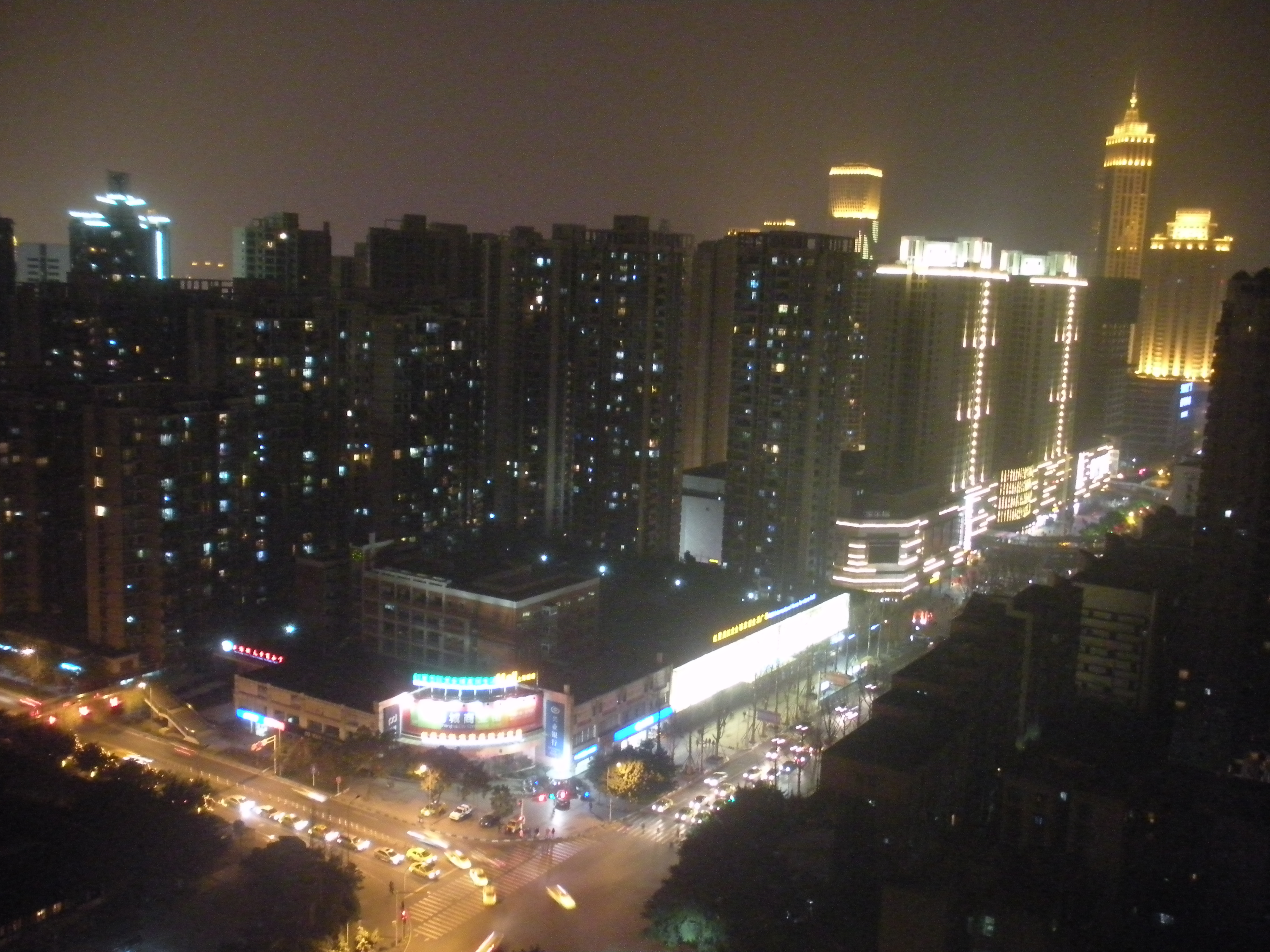 Night view of Nanping District,Chongqing.The photo has been taken by Prof.Chen Hualin.